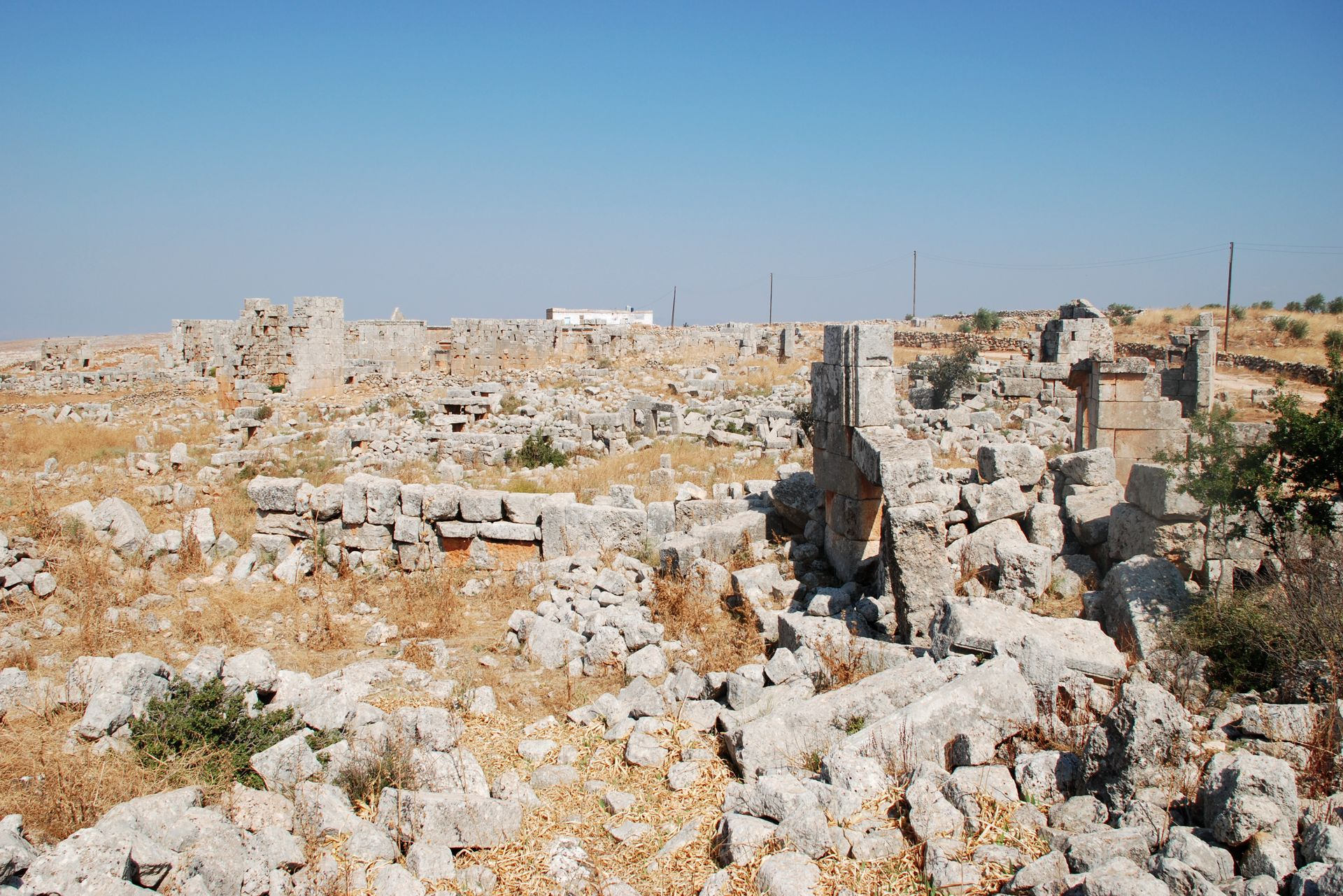 Dar Qita, dead city near Baqirha, Syria